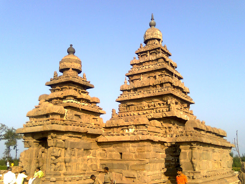 maamallapuram shore temple